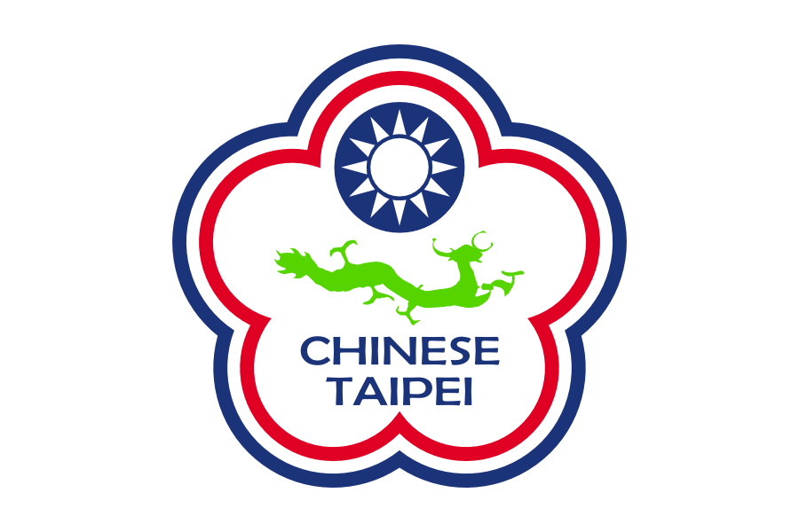 Flag of Chinese Taipei Sport Association of Deaf